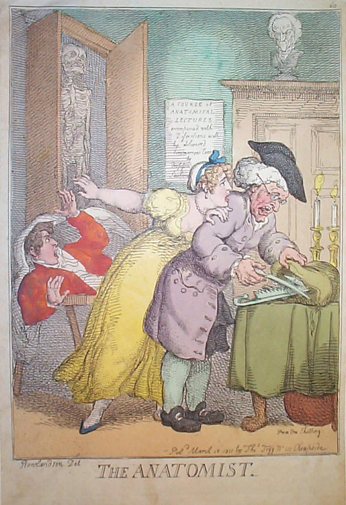 The Anatomist, 1811